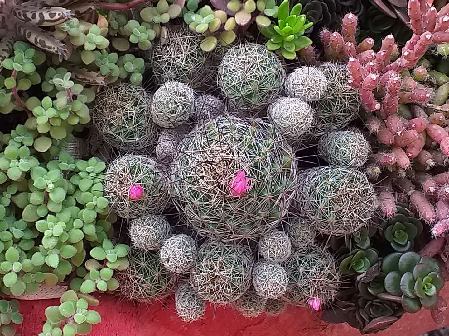 Mammillaria gracilis PFEIFF var.fragilis. 2018 Taichung World Flora Exposition, Taiwan.